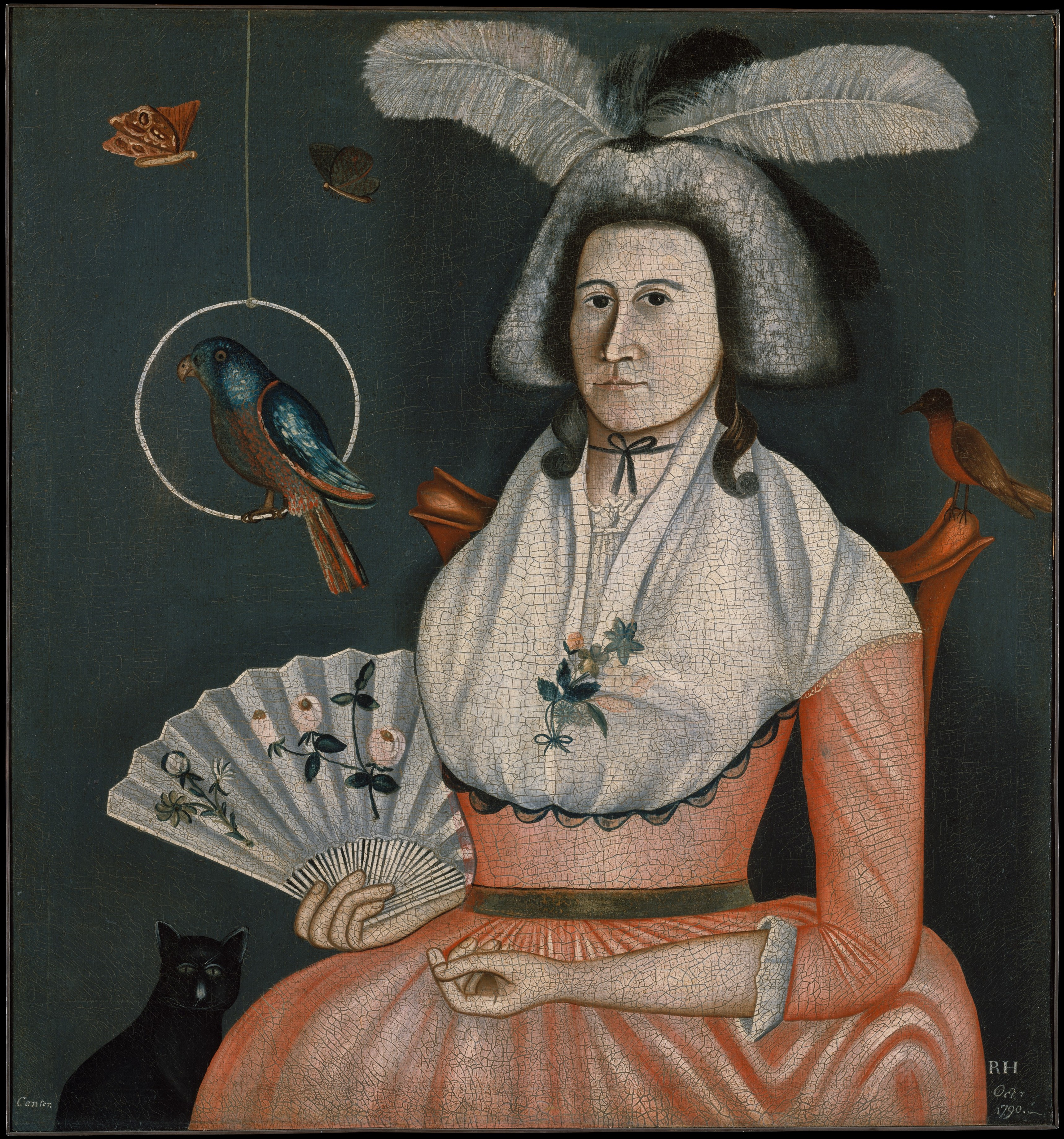 Lady with Her Pets (Molly Wales Fobes)